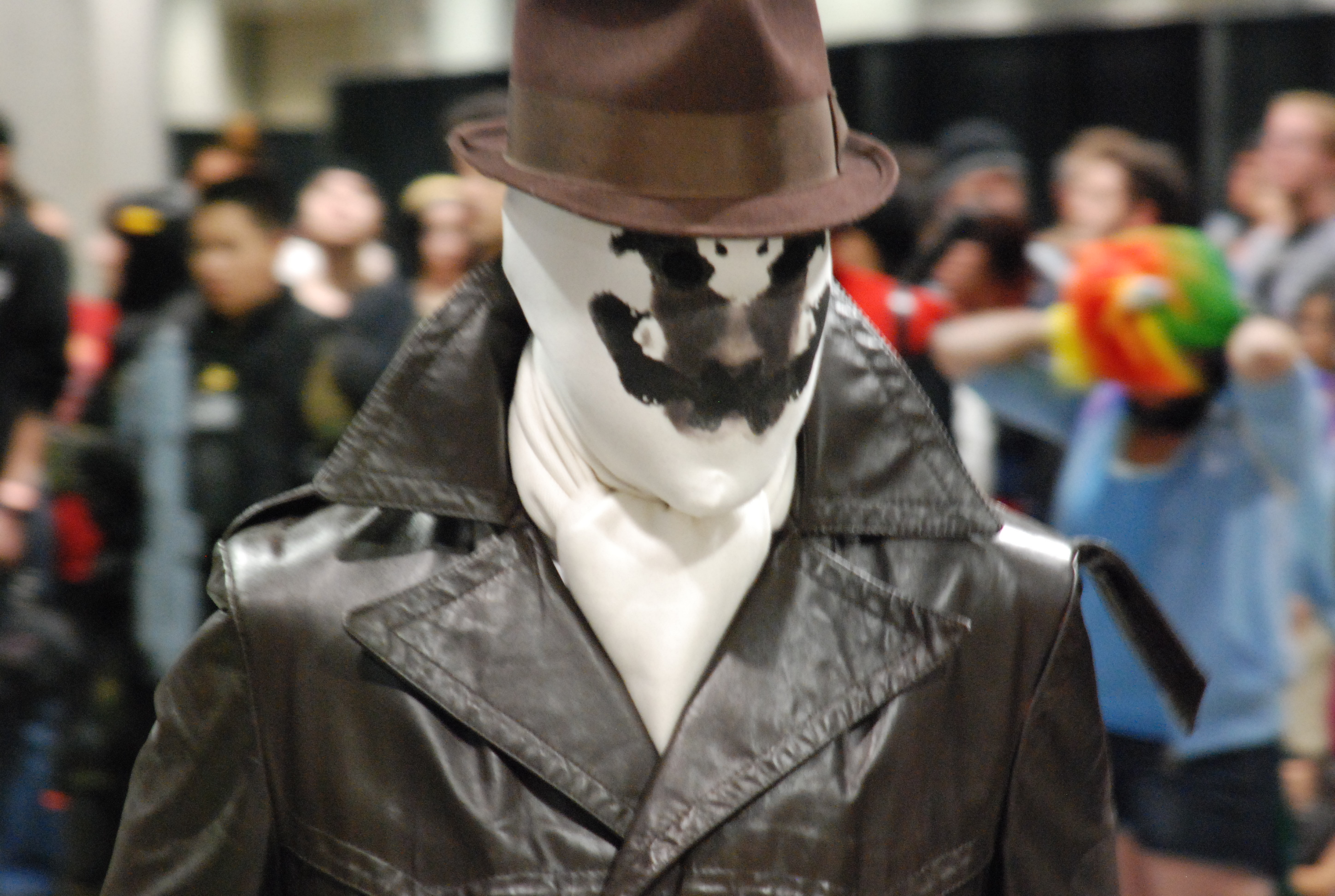 Cosplay at Stan Lee's Comikaze Expo 2011.